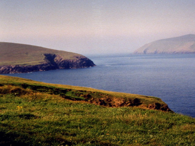 Blasket Sound, Dingle Peninsula